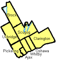 Durham Region, Ontario